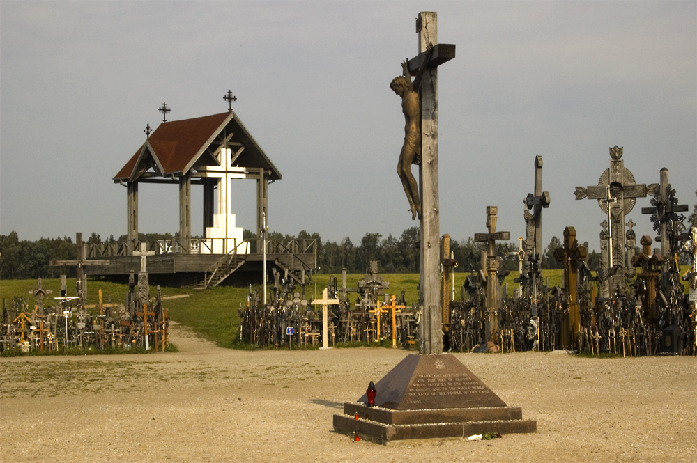 altar pavillon at the Hill of Crosses, built in 1993 for a service of pope Johannes Paul II. In the foreground a cross with a Jesus figure donated by the Vaticane in 1994.